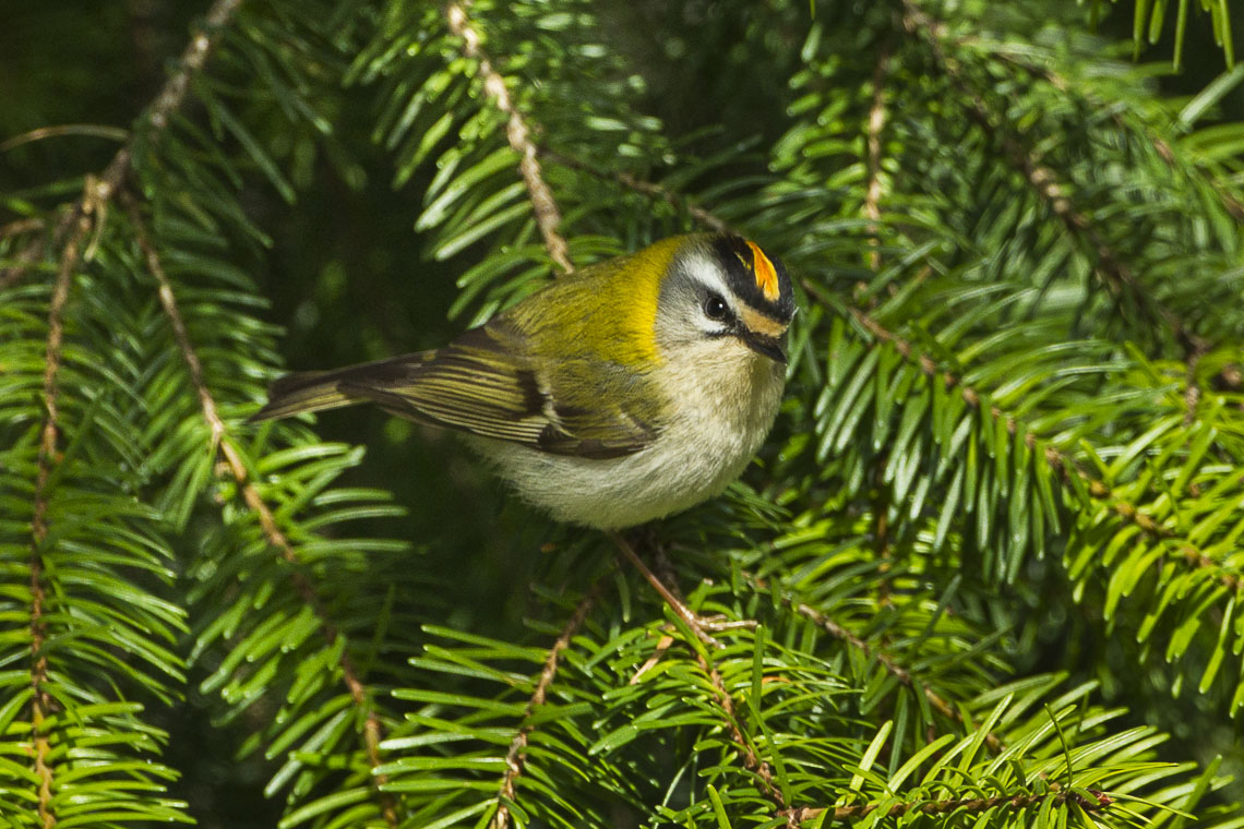 Firecrest - Appenines - Italy_S4E4644